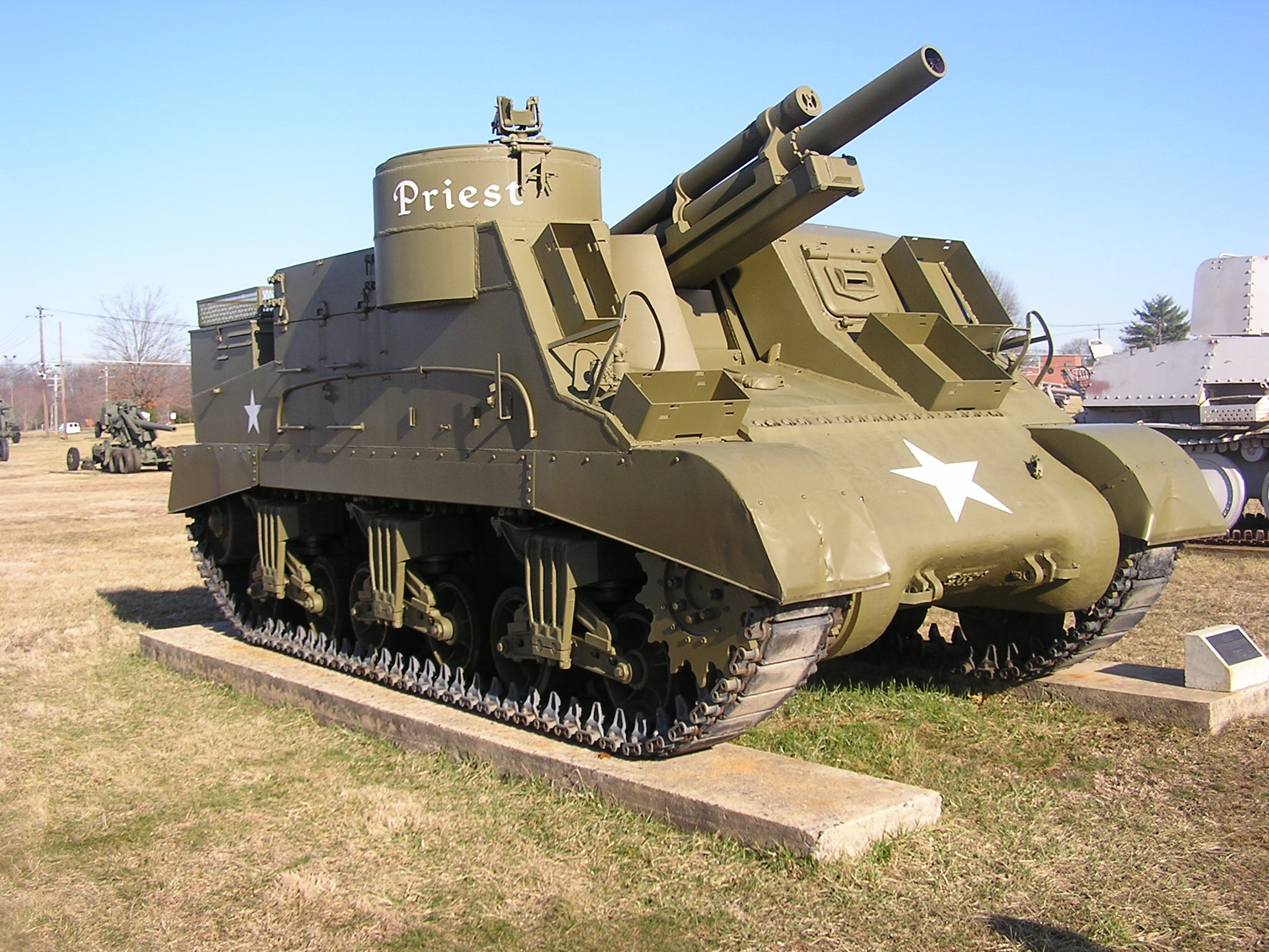 Taken at Aberdeen Proving Ground